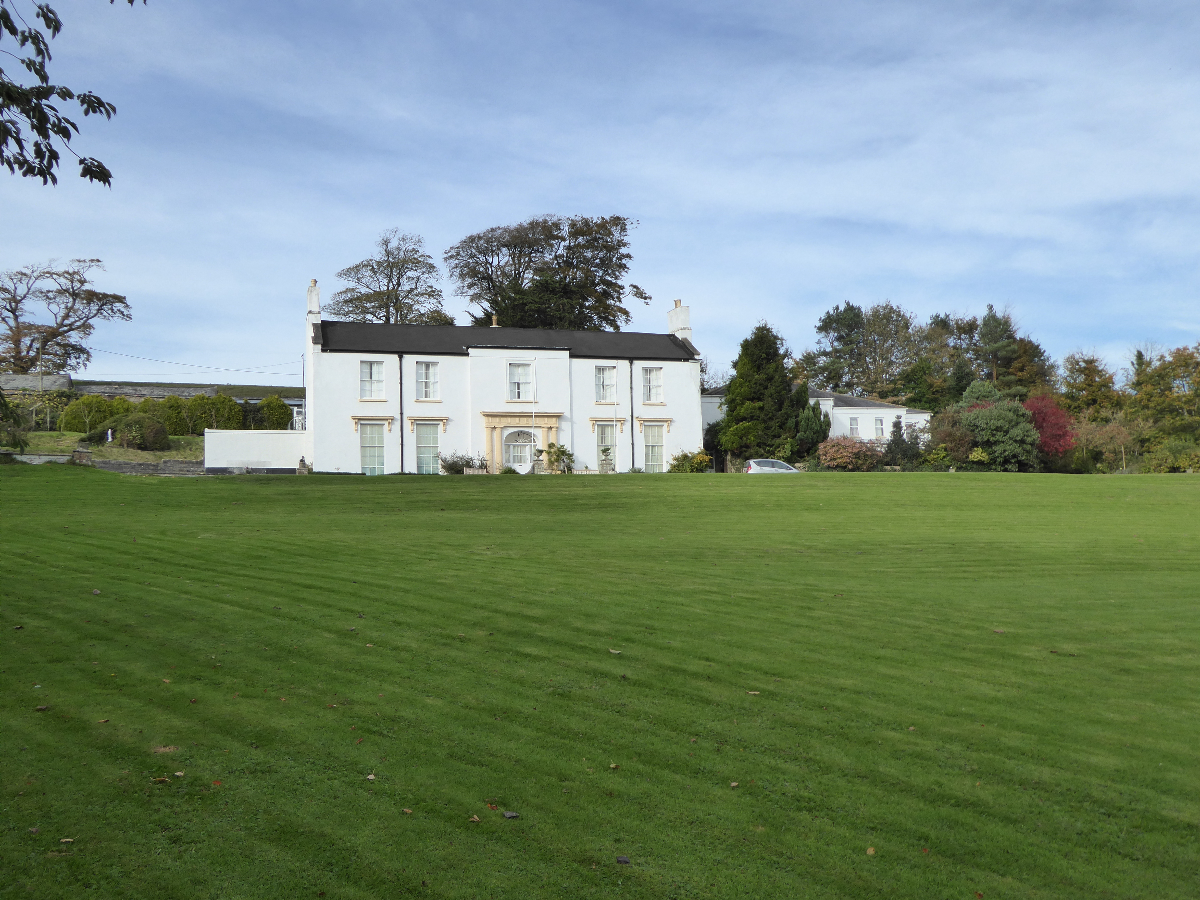 Dennington House in the parish of Swimbridge, Devon. (In 2018 trading as "Francis House" an adult rehabilitation centre). Dennington (modern spelling) was a seat of the Chichester family, a branch of that family seated originally at Raleigh, Pilton, with a later major branch at Hall, Bishop's Tawton. (Not to be confused with nearby Dinnaton Barton, Swimbridge, 3/4 mile to S-E, a 19th century model farm built in 1853[2] by the 7th Duke of Bedford). Dennington House was later the residence of Richard Incledon-Bury (1757-1825), heir of Vice-Admiral Thomas Bury, Royal Navy, lord of the manor of Colleton, Chulmleigh in Devon,[6] and third son of Chichester Incledon (1715–1771) of Barnstaple, a junior branch of the ancient gentry family of Incledon of Incledon, later of Buckland House, both in the parish of Braunton, Devon.[7] As required under the terms of his inheritance, he assumed the surname of Bury. He married his second cousin Jane Chichester, second daughter of Charles Chichester of Hall, Bishop's Tawton.[8] His daughter and heiress Penelope Incledon-Bury, in 1836 at Swimbridge, married the famous fox-hunting Parson Jack Russell (1795–1883), Rector of Black Torrington and Vicar of Swimbridge, who invented the Jack Russell Terrier. Russell lived both at Dennington and at Tordown House, also within the parish.